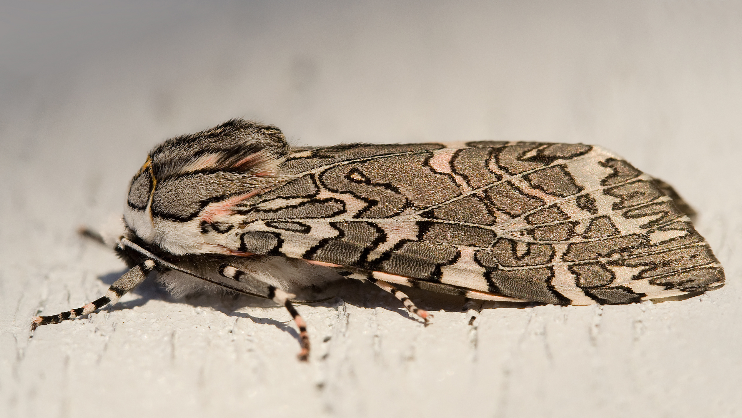 Painted Arachnis (Arachnis picta) found near Crestone, Colorado